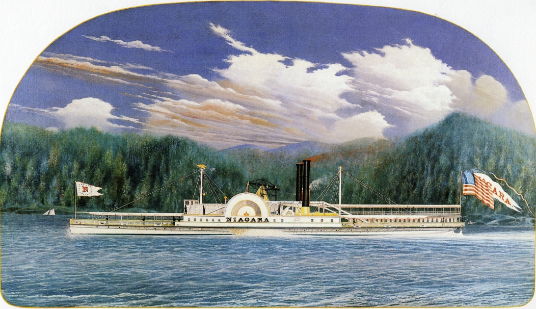 Niagara, Hudson River steamboat built 1845. Oil on canvas by James Bard.